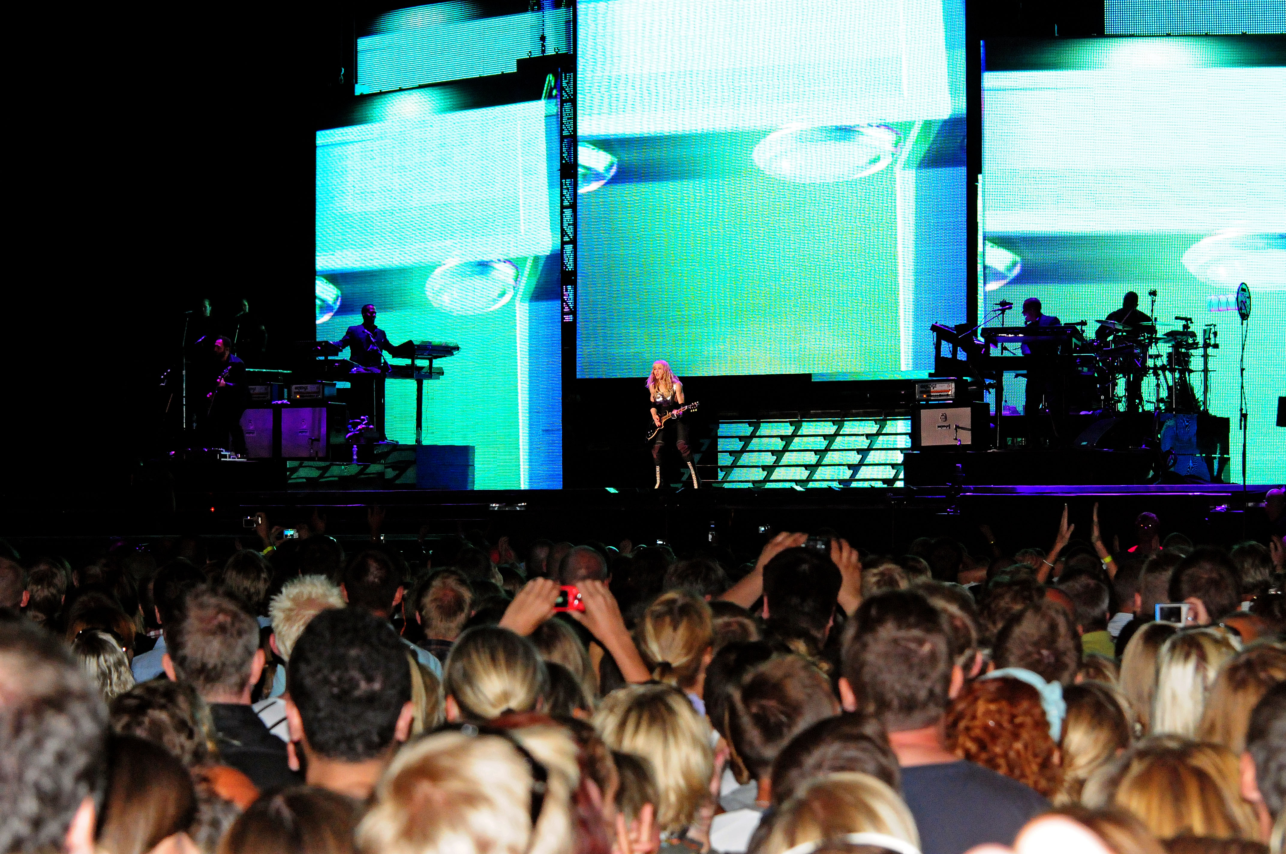 Madonna in Sweden, Gothenburg 2009 at Ullevi